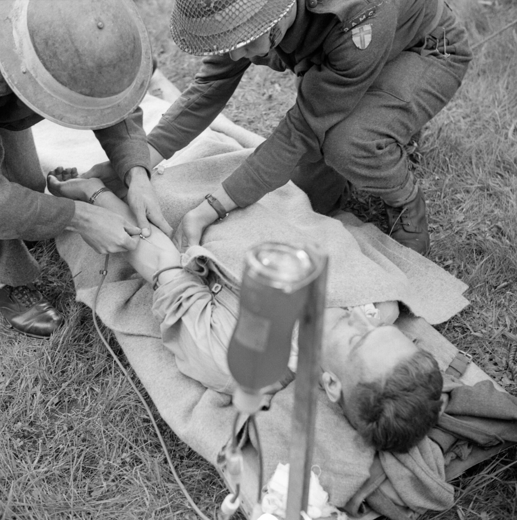 The British Army in North-west Europe 1944-45 A casualty being given a blood plasma transfusion at No 20 Field Dressing Station near Oostemalle, Belgium, 6 October 1944.